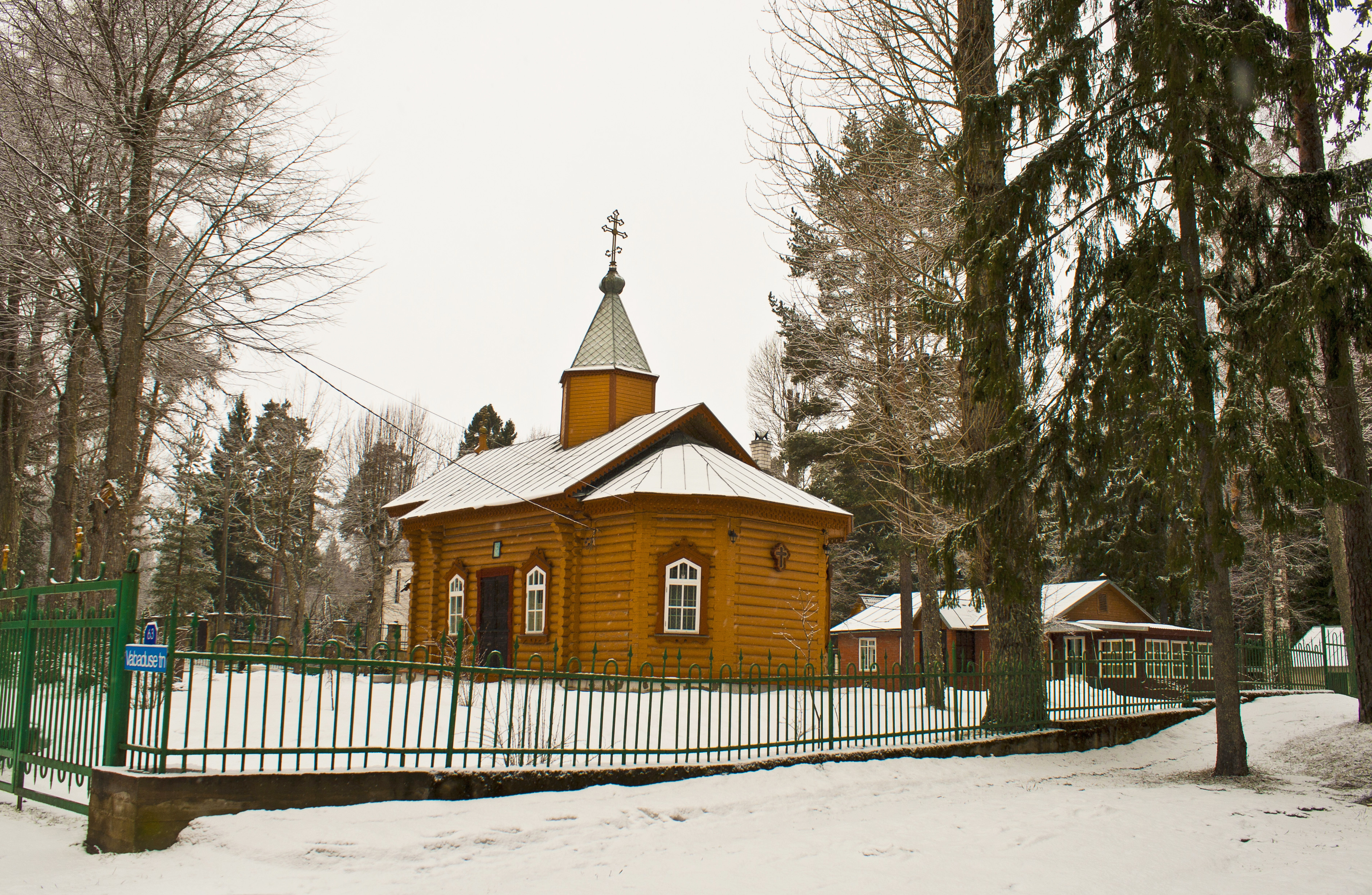 Narva-Jõesuu church